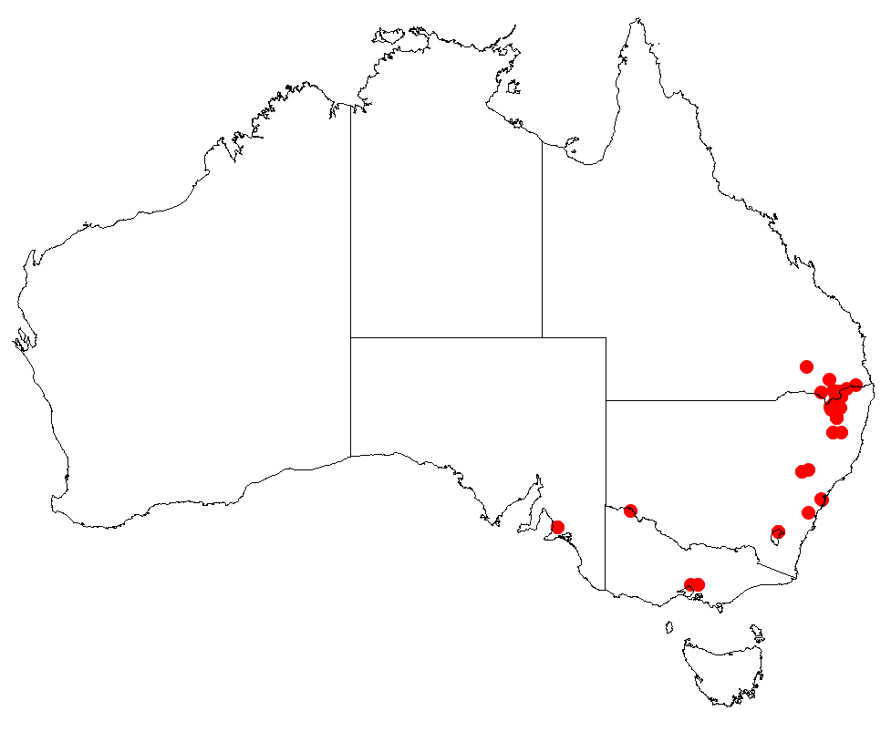 Acacia adunca Occurrence data from Australasia Virtual Herbarium downloaded from on 8 December 2018